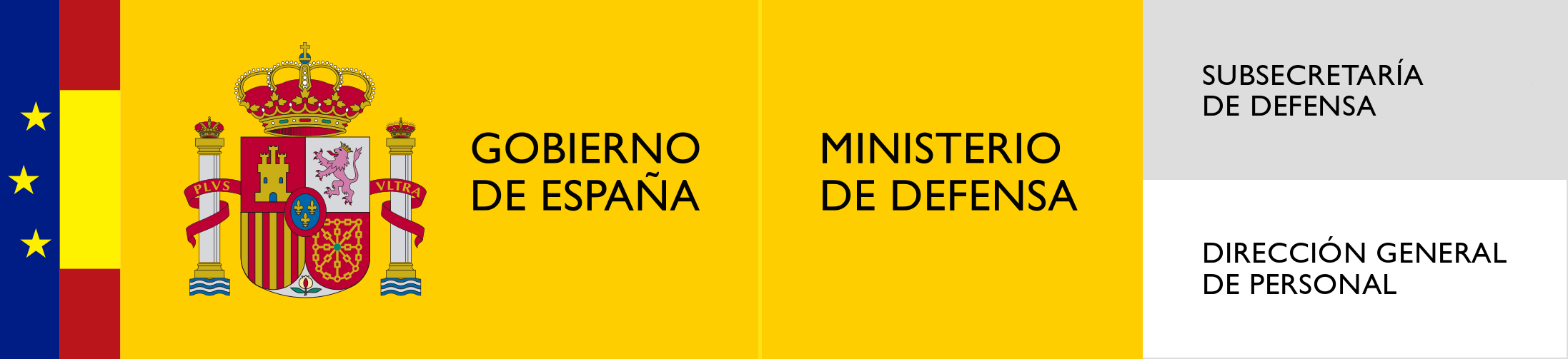 Logo of the Directorate-General for Personnel of the Ministry of Defence of Spain.